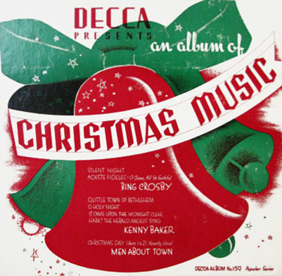 Album